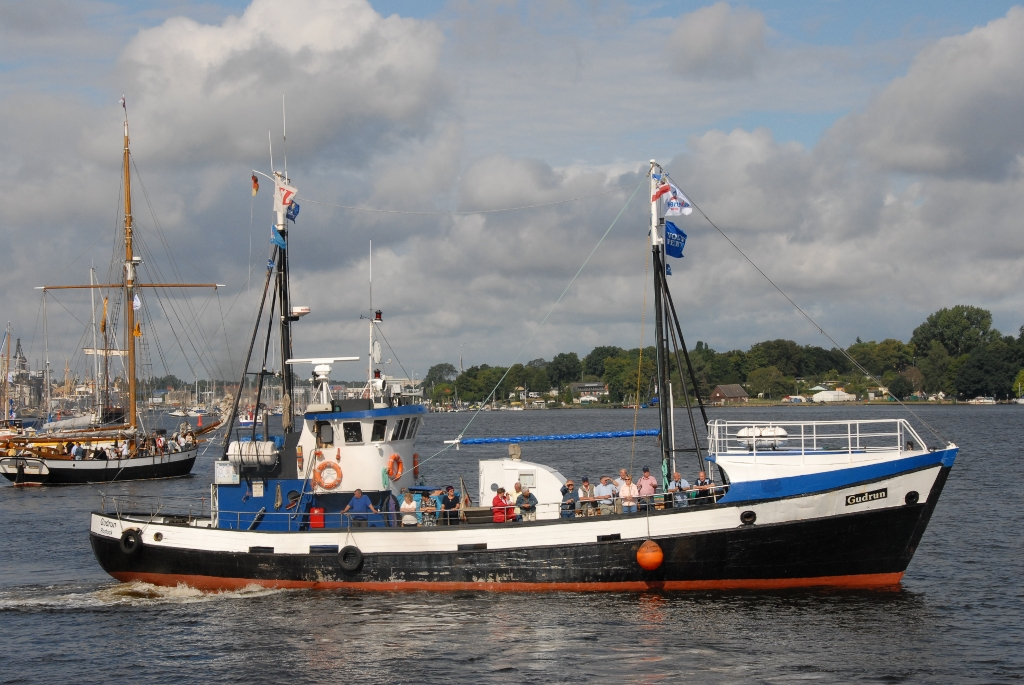 Offshore-Angling-Cutter GUDRUN, former KFK 64 ("Kriegsfischkutter" = war-fishing smack)in Rostock at Hanse Sail